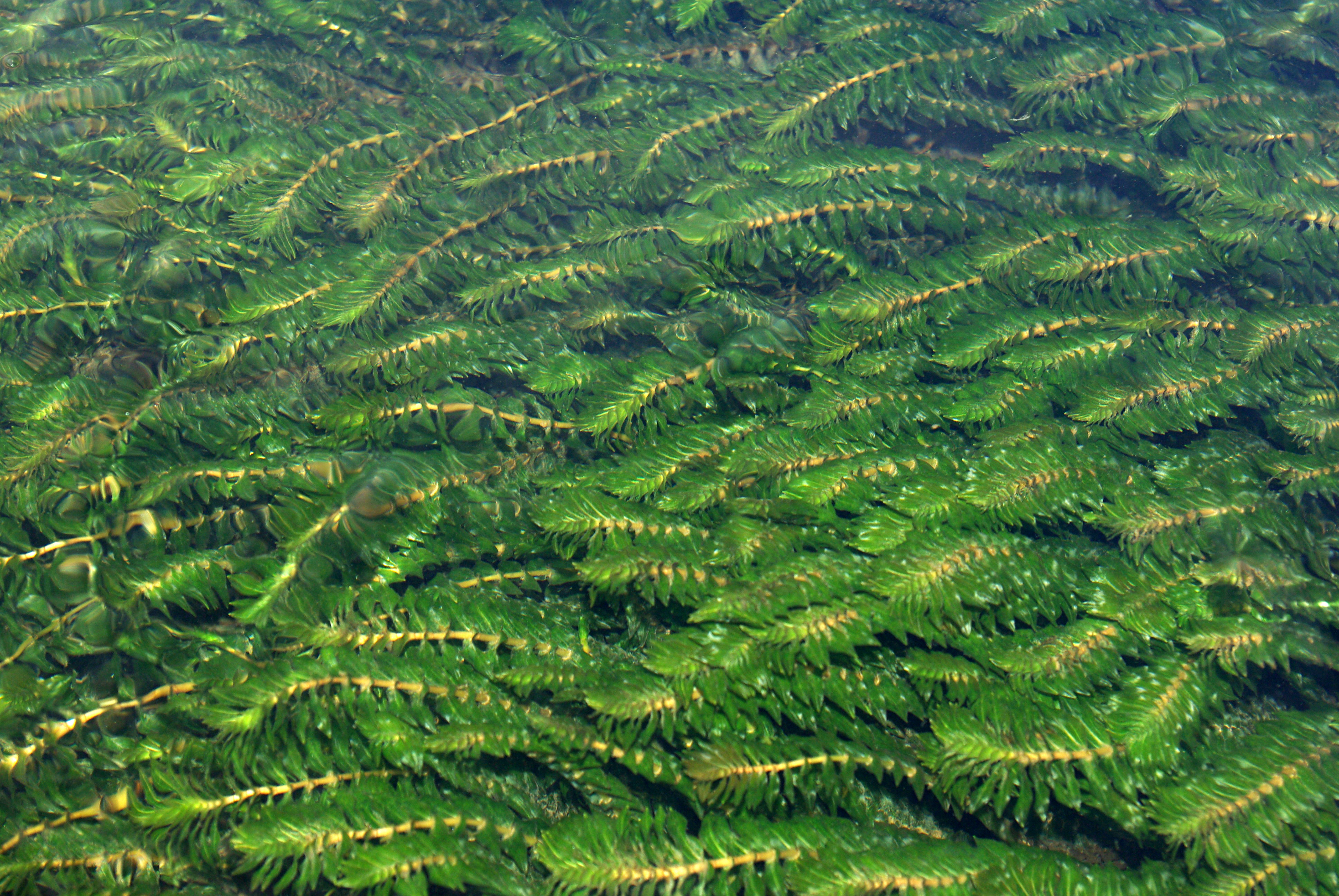 Groenlandia densa, river Porma, León (Spain)